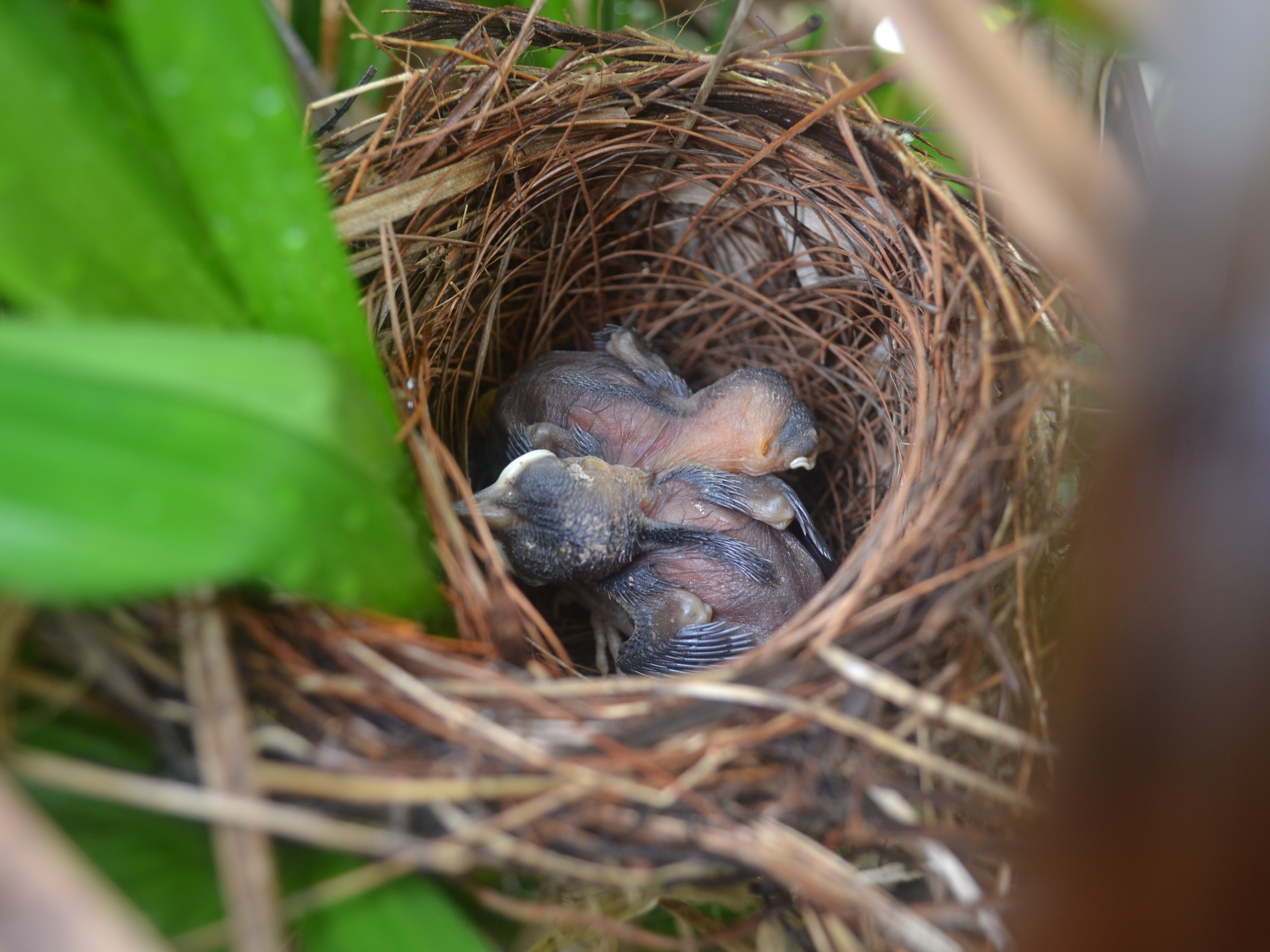 Chicks of Yellow-vented Bulbul 5th day after hatching